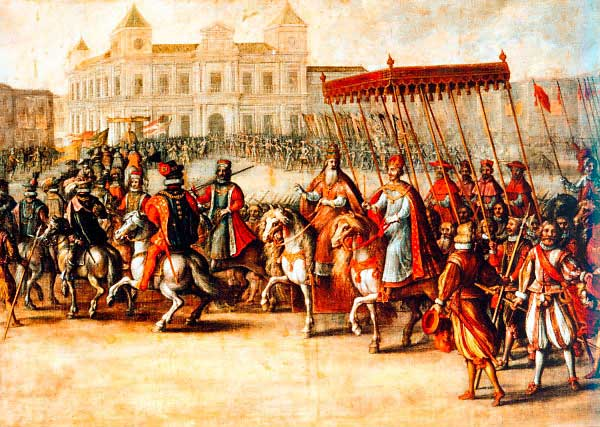 Entrance of Charles V into Bologna for his Coronation (1530)